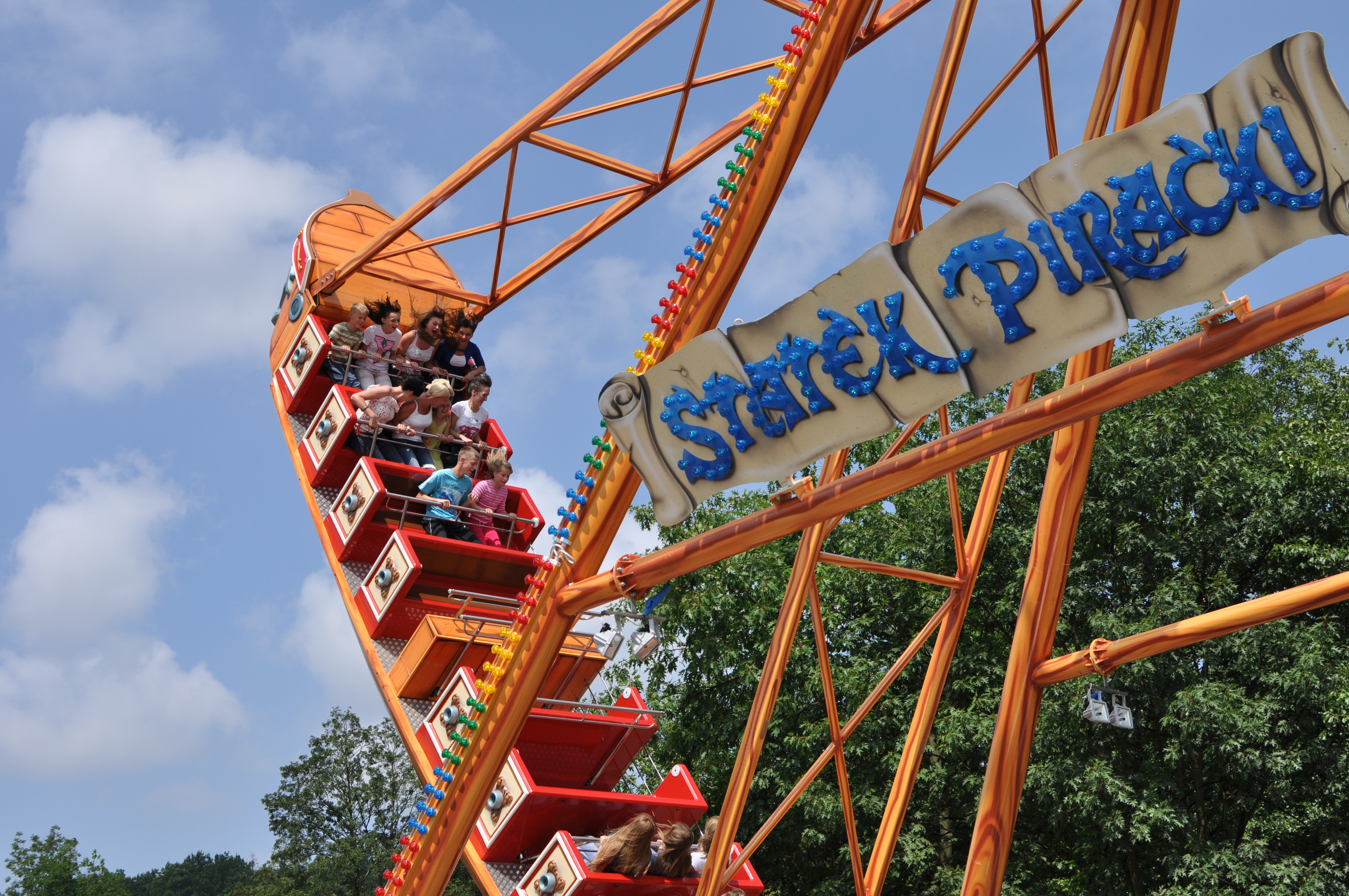 Statek Piracki – jedna z wielu atrakcji bałtowskiego Parku Rozrywki